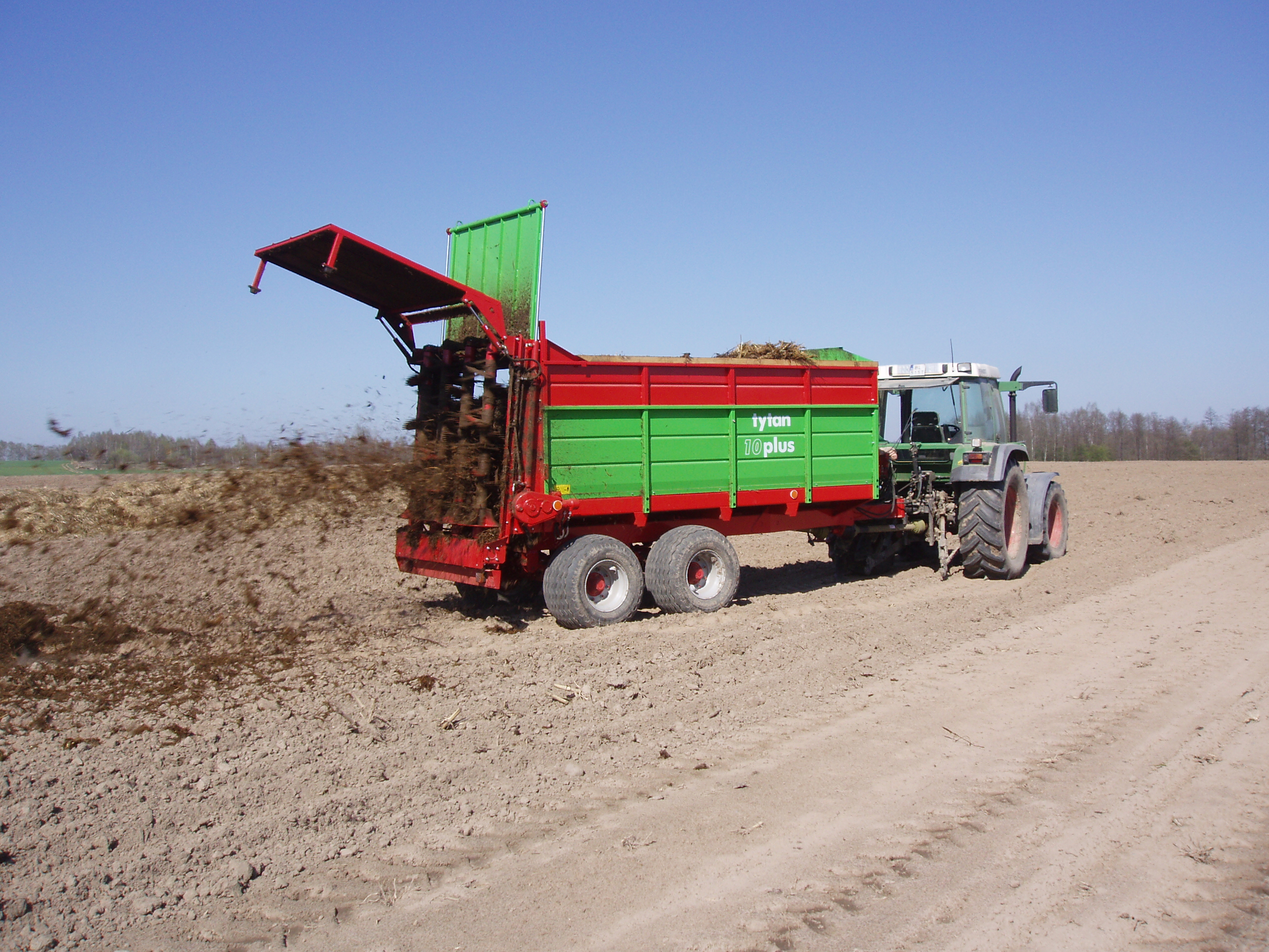 Menure spreader Agromet-Pilmet Tytan 10 plus